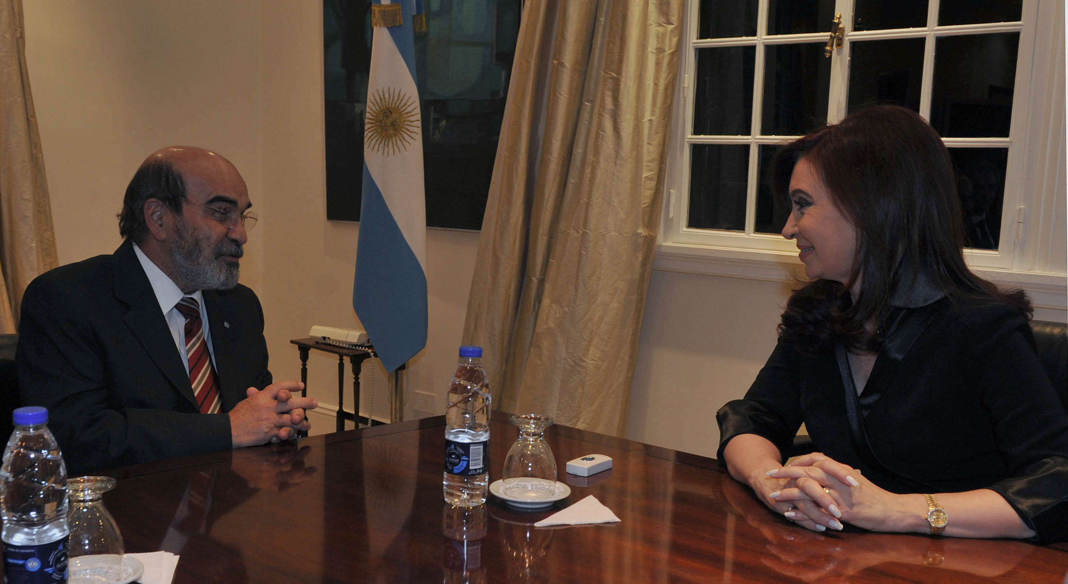 La presidenta Cristina Fernández dialoga con el electo titular de la FAO, José Graziano Da Silva, durante una audiencia en la Residencia de Olivos.